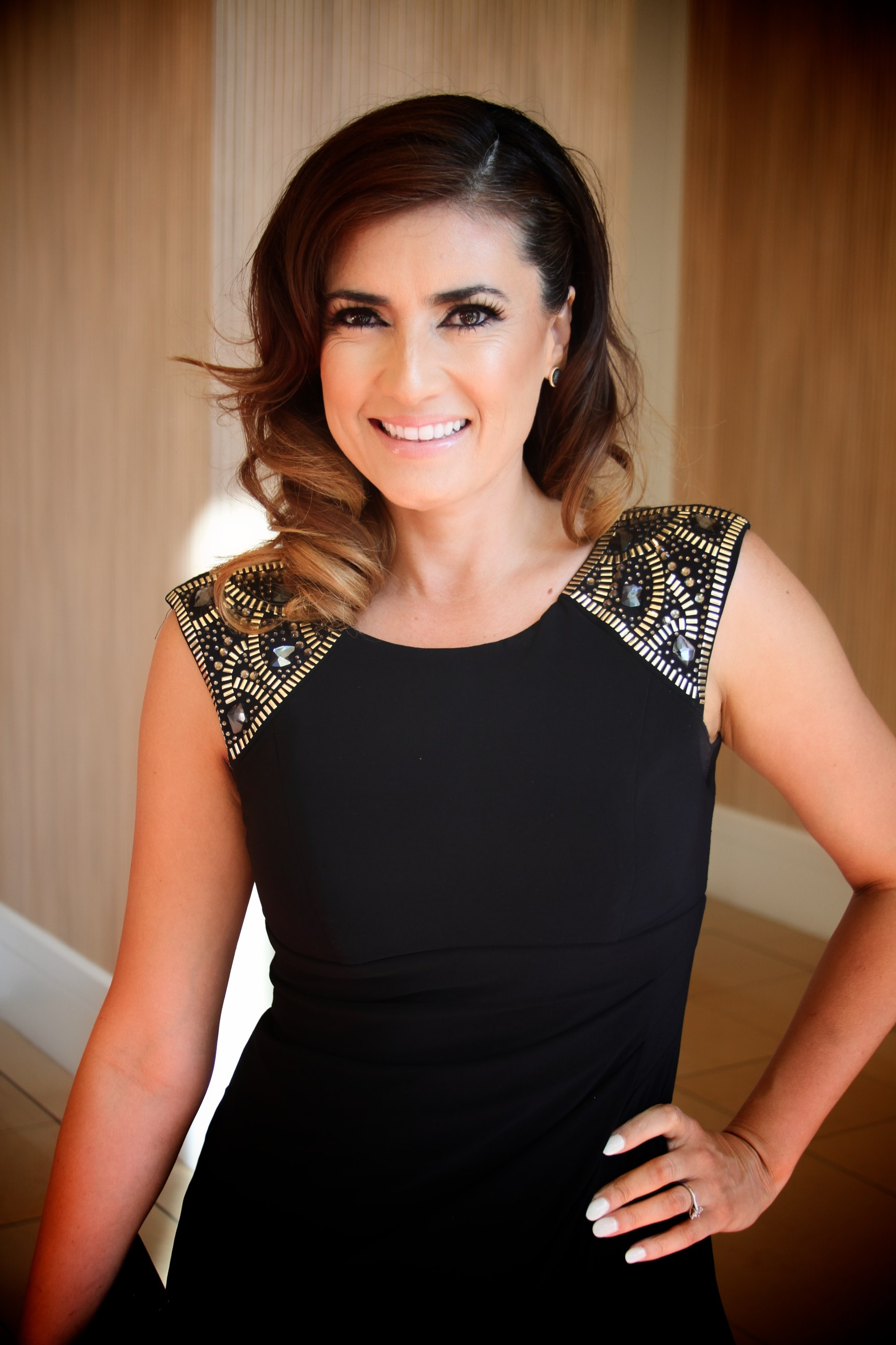 Naibe Reynoso at the 2014 Imagen Foundation Awards